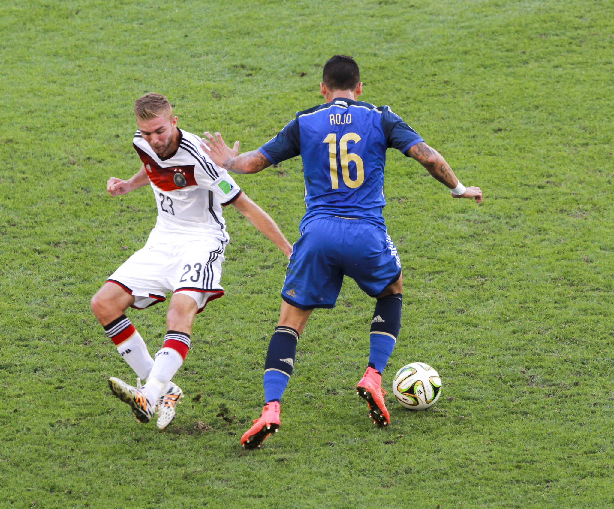 The final match of World Cup 2014 between Germany and Argentina 2014-07-13